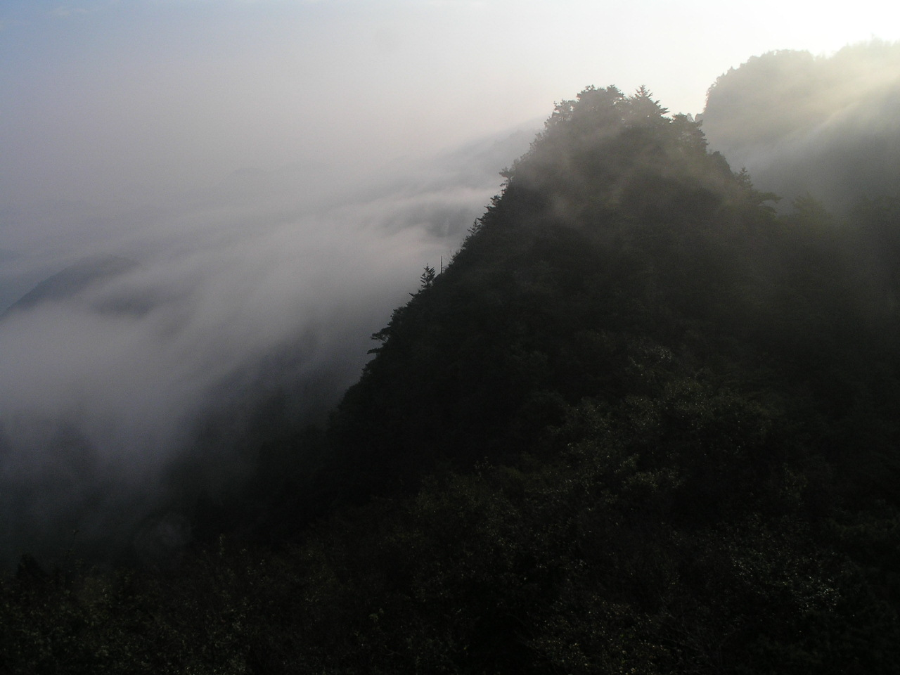 Mount Kogane (Koganegatake)